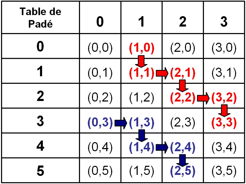 Padé table for a sequence of type 1